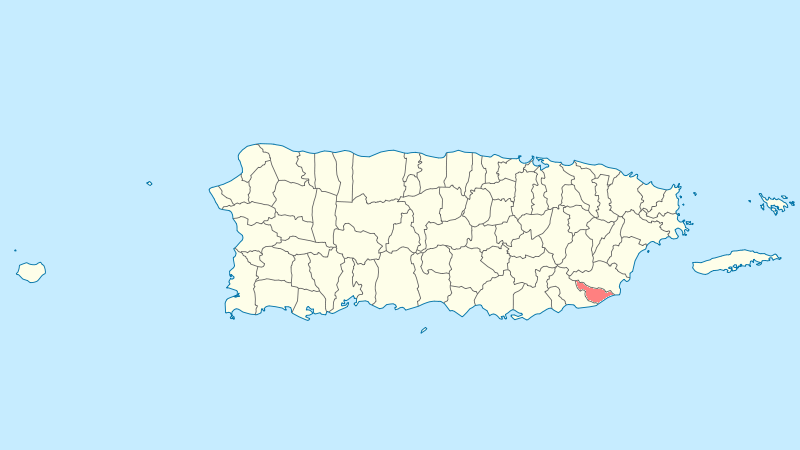 Municipal locator of Puerto Rico